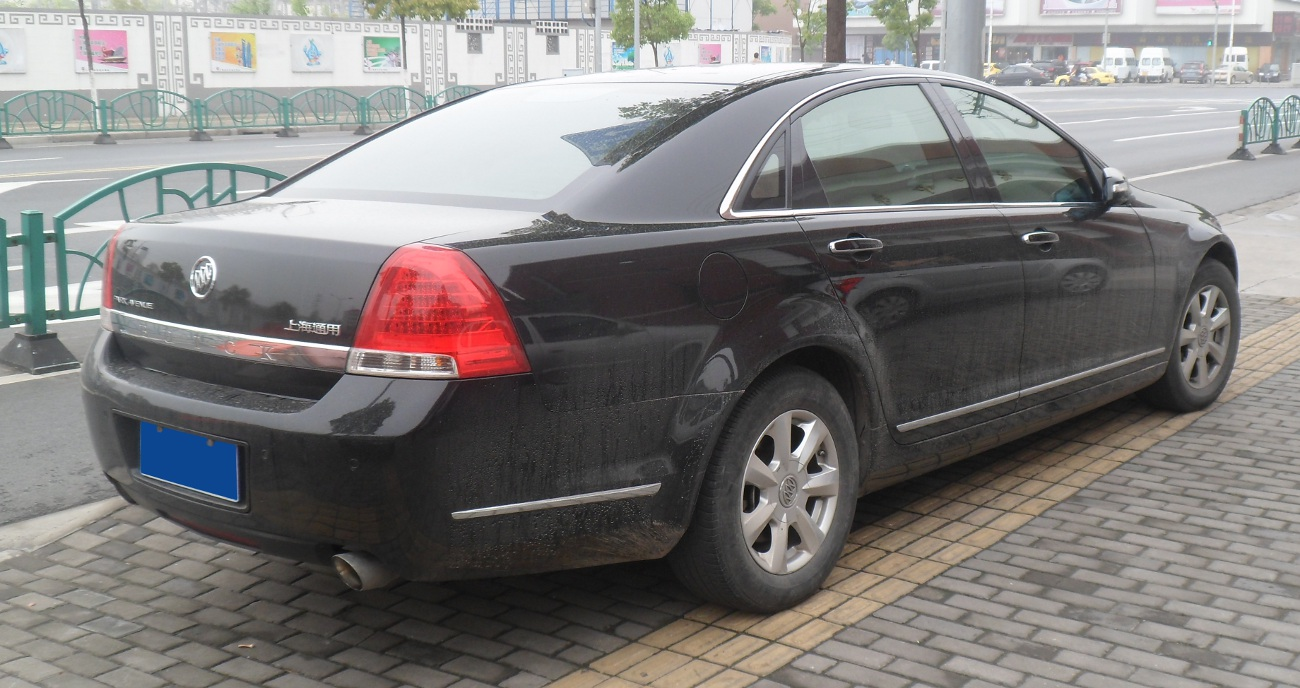 Buick Park Avenue CN photographed in Shanghai, China.